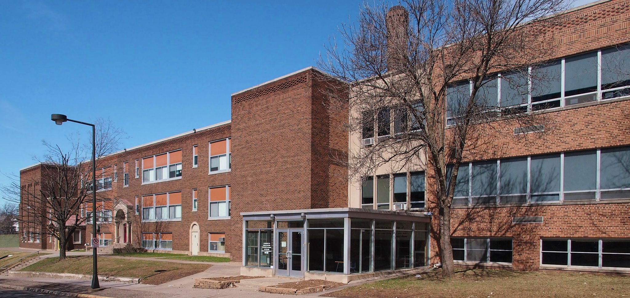 Twin Cities Academy, 835 E 5th St, St Paul, Minnesota, USA. Viewed from the southeast.